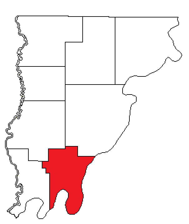 Coffee Precinct in Wabash County, Illinois.